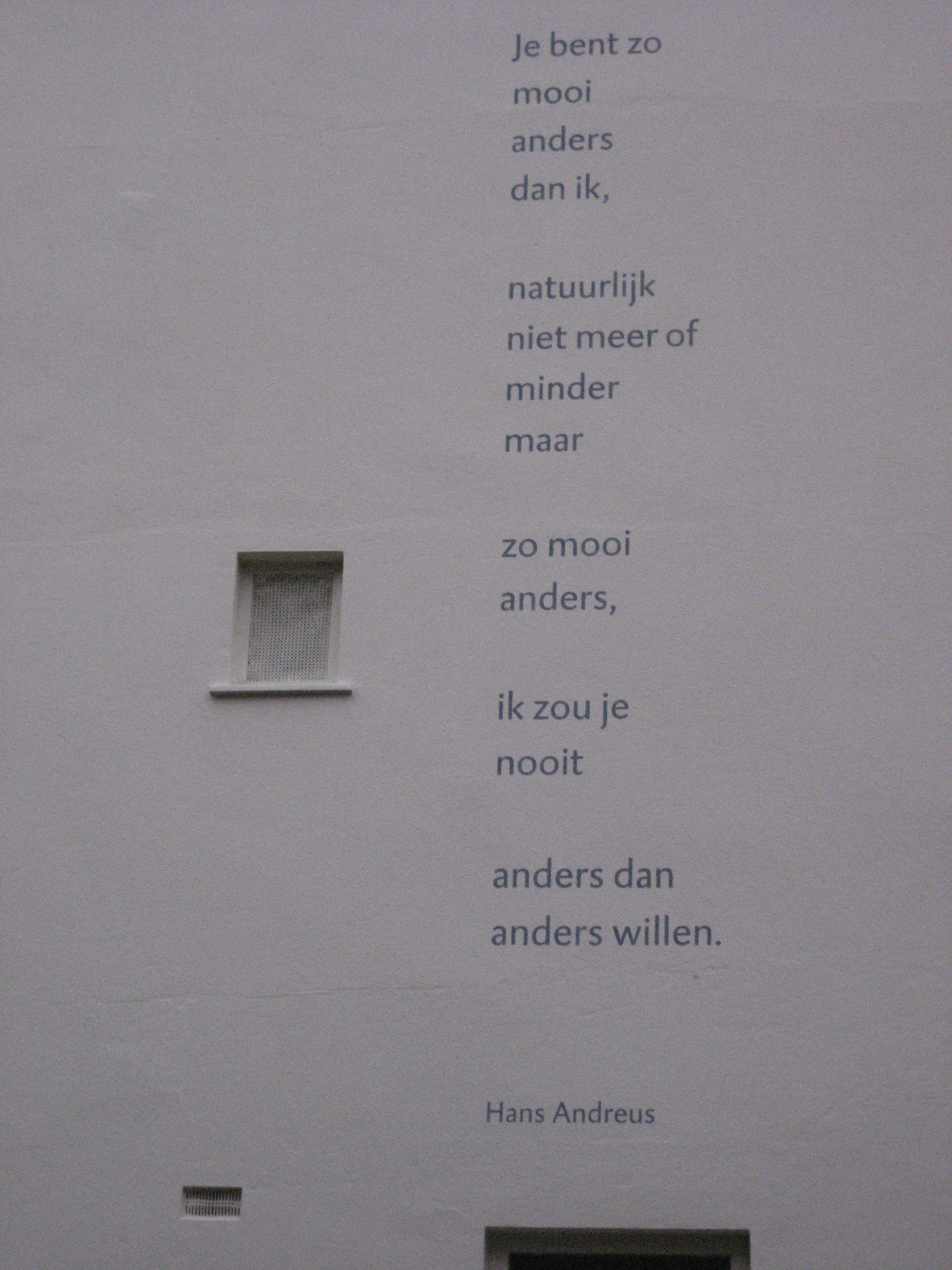 Hans Andreus: Jij ben zo / mooi / anders / dan ik. Wall poem in the Surinamestraat, corner Laan Copes van Cattenburch, The Hague (NL). Letter: DTL Caspari; typographer: Gerard Daniëls